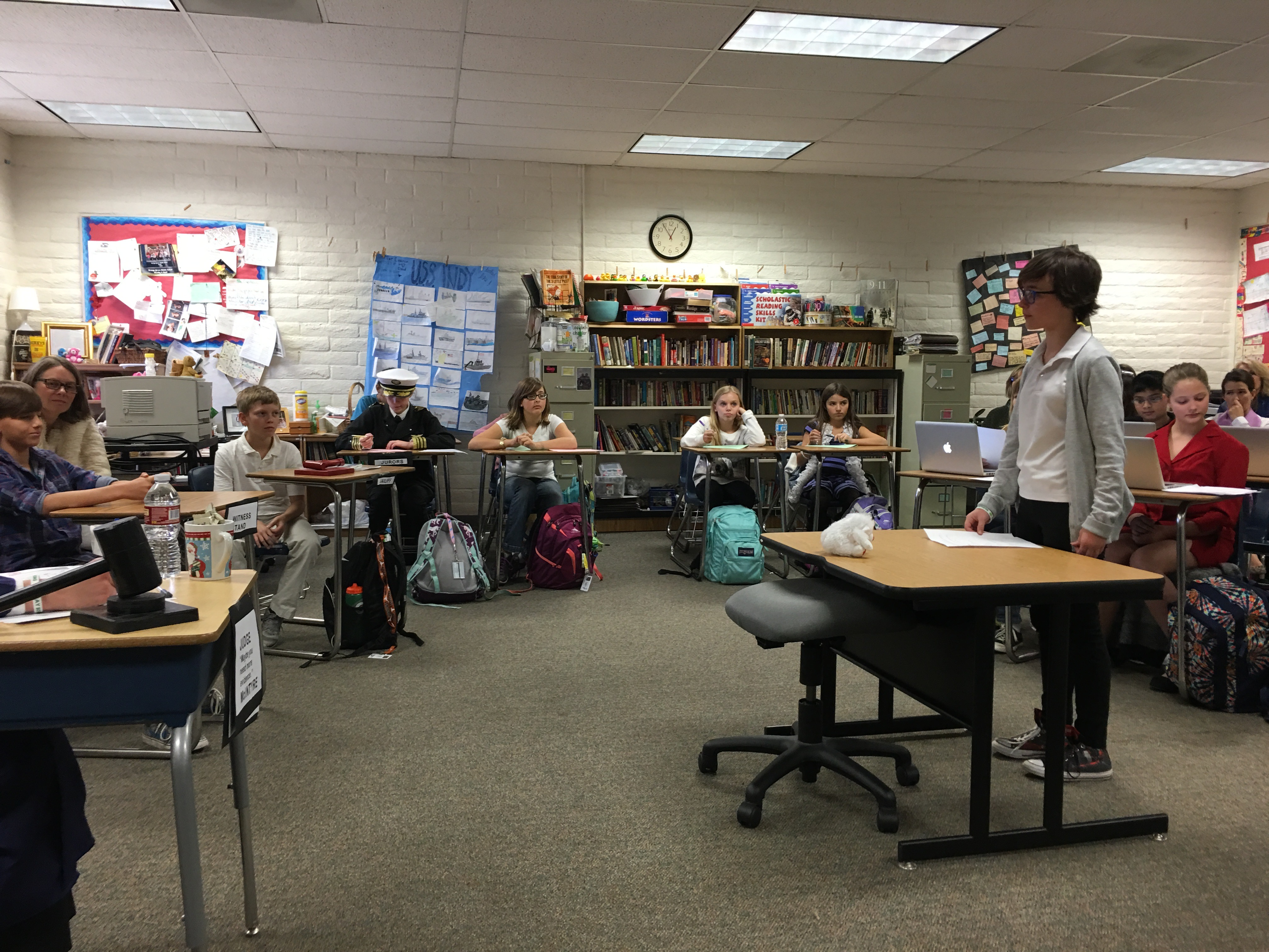 Students participating in a mock trial.